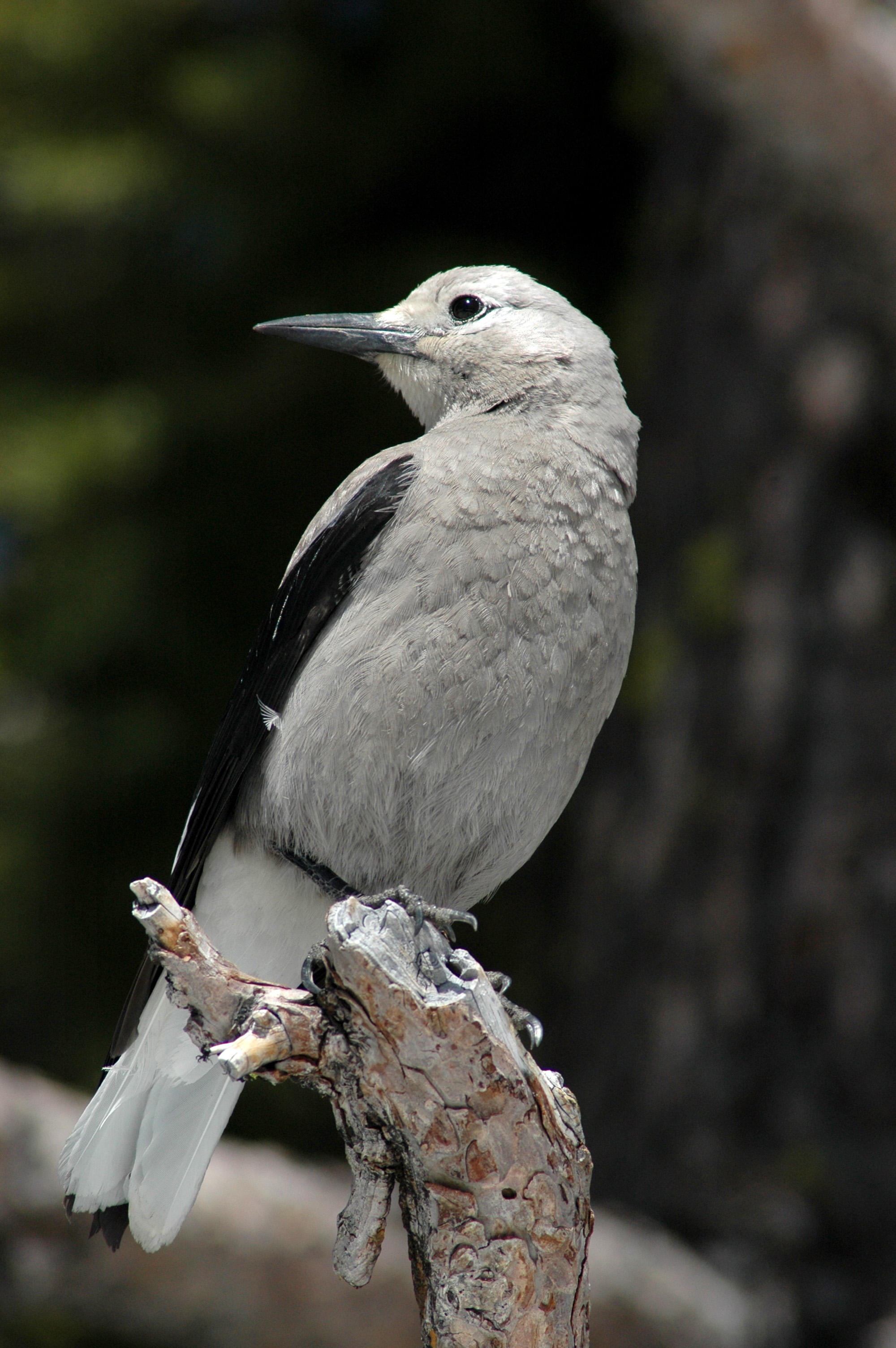 Clark's Nutcracker perched on a branch. Photograph taken by Michael Sulis, April 30th, 2006 at Crater Lake, Oregon.